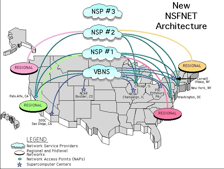 New NSFNET Architecture, c. 1995 Steven N. Goldstein, NSF Program Director for International Networking U.S. federal government image